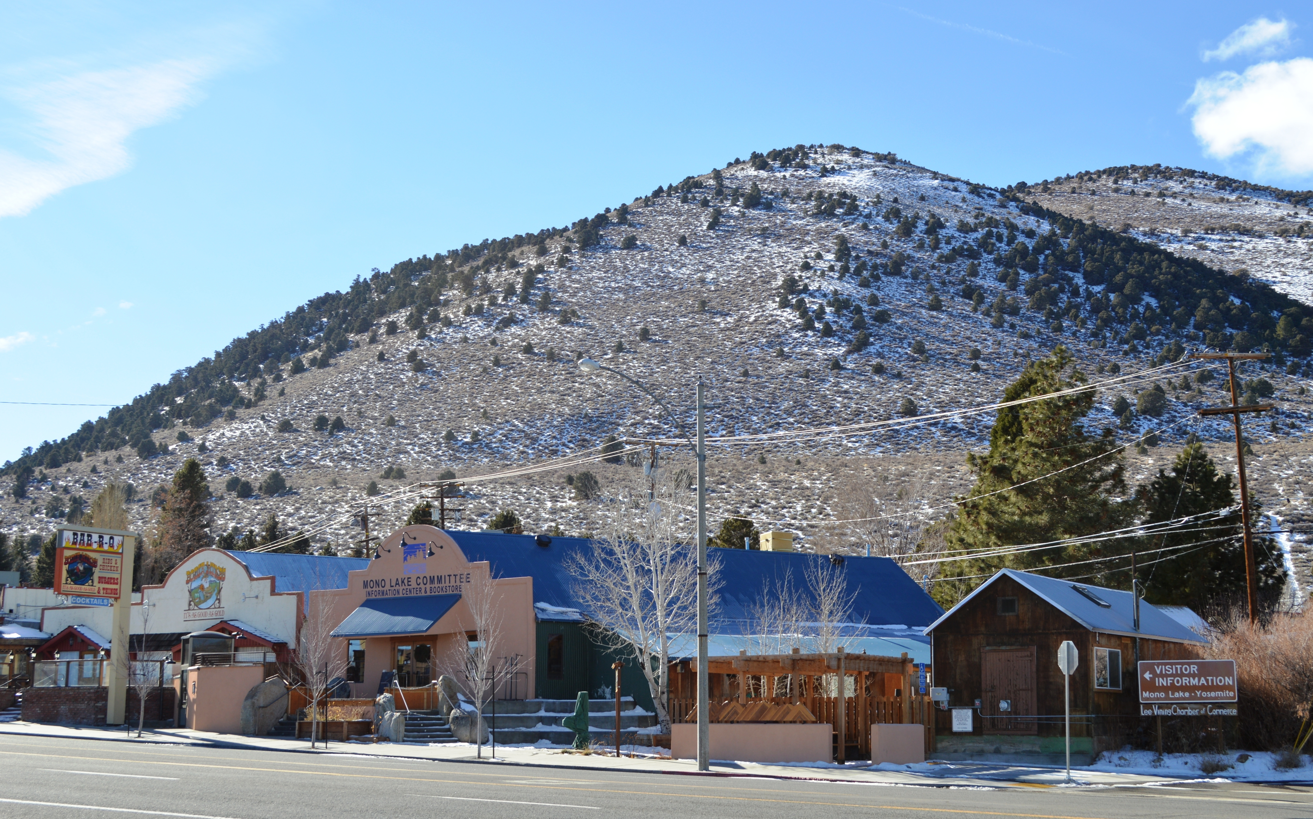 Mono Lake Committee's headquarters, which also serves as a visitor information center, located along U.S. Route 395 in Lee Vining, California, U.S.A.